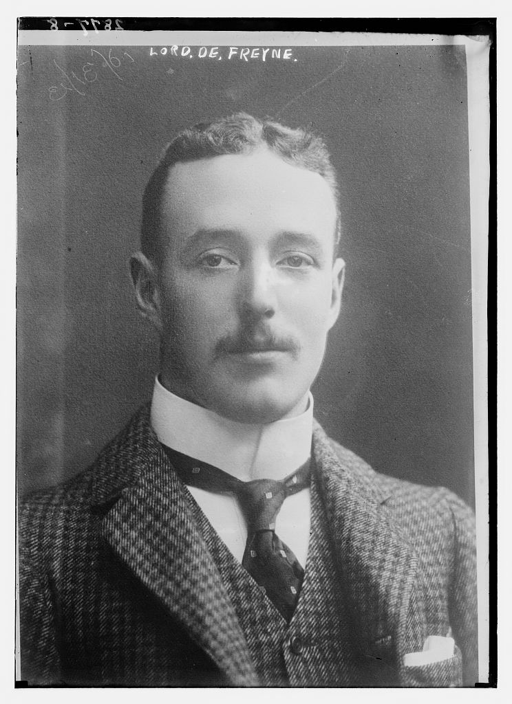 Bain News Service,, publisher. Lord de Freyne [between ca. 1910 and ca. 1915] 1 negative : glass ; 5 x 7 in. or smaller. Notes: Title from unverified data provided by the Bain News Service on the negatives or caption cards. Forms part of: George Grantham Bain Collection (Library of Congress). Format: Glass negatives. Repository: Library of Congress, Prints and Photographs Division, Washington, D.C. 20540 USA, General information about the Bain Collection is available at Persistent URL: Call Number: LC-B2- 2877-8